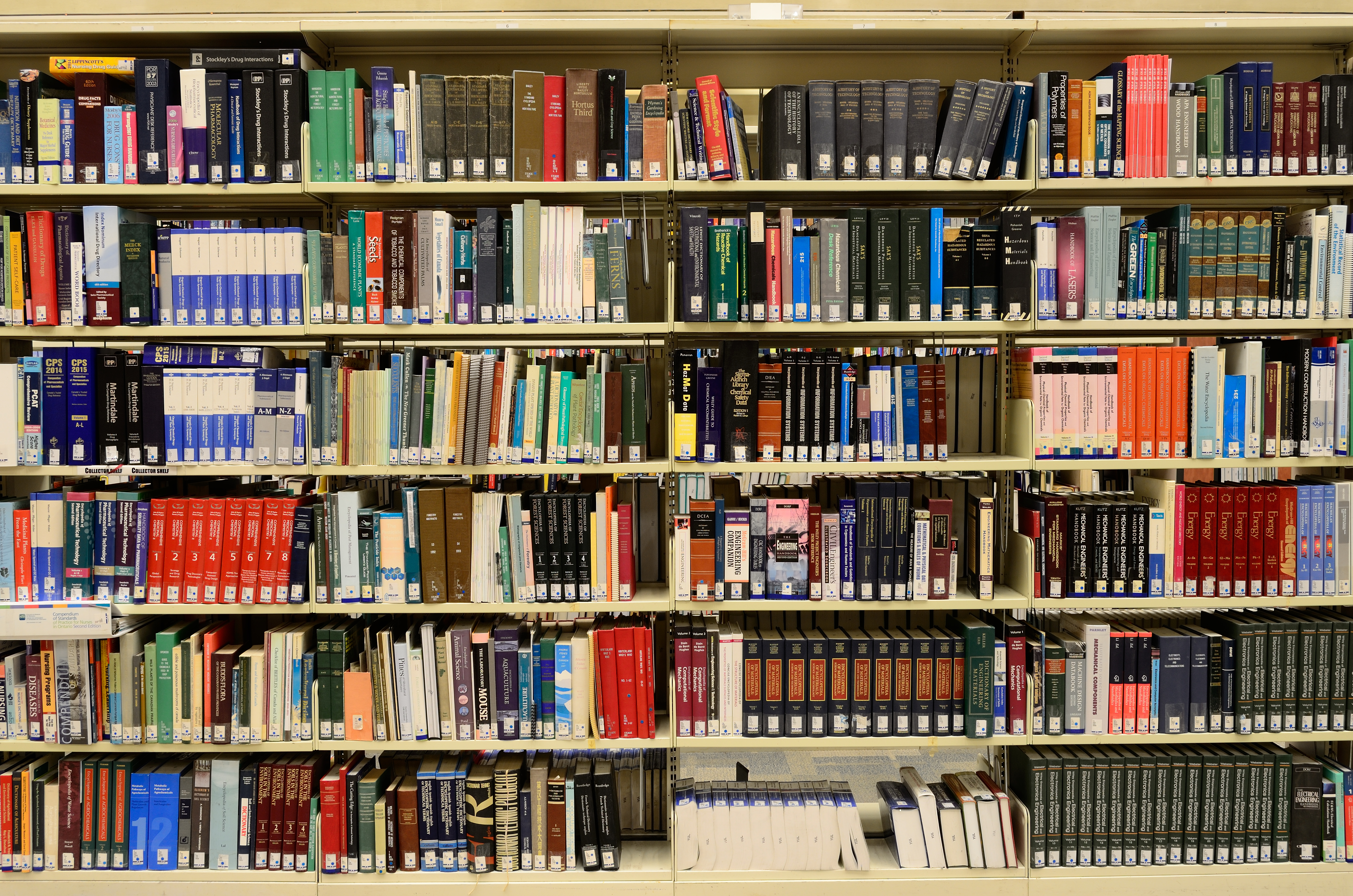 Steacie Science and Engineering Library at York University.